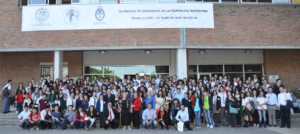 national competition 14